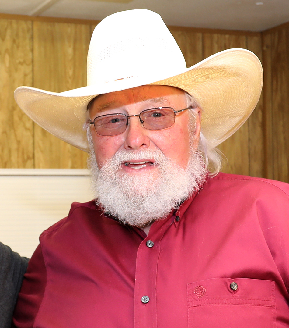 Governor of Maryland Larry Hogan and country musician Charlie Daniels